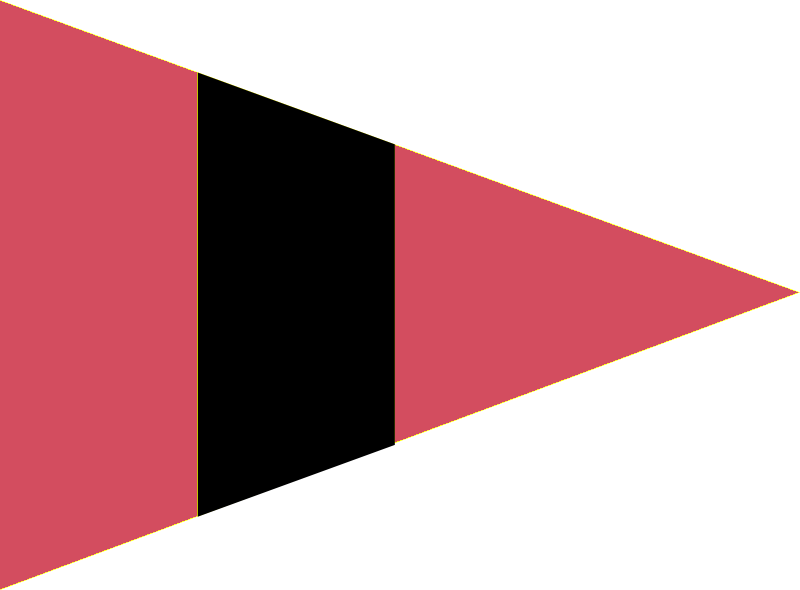 Flag Tank Company (Wehrmacht).